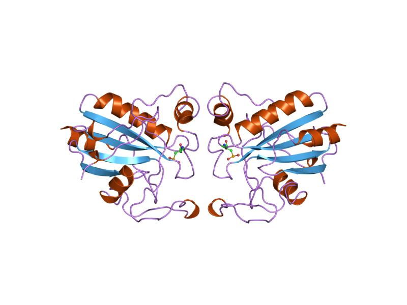 Cartoon representation of the molecular structure of protein registered with 1gp1 code.